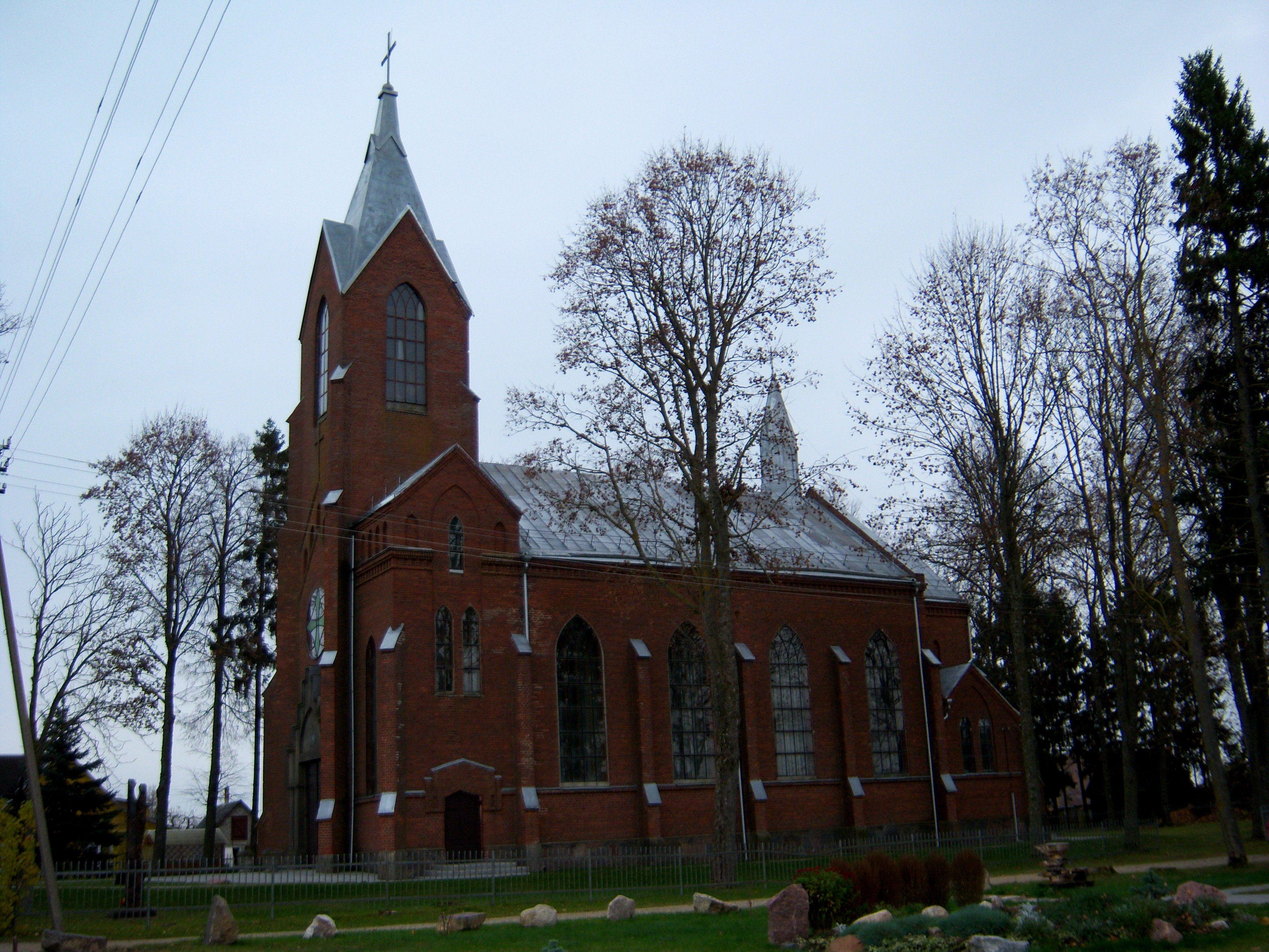 Roman Catholic Church in Dabužiai, Anykščiai District, Lithuania